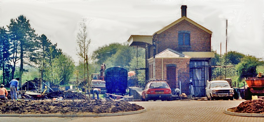 Coleford station remains, undergoing renovation as a Museum. View SE, towards Parkend: ex-Severn & Wye Joint (GWR & Midland) terminus of branch from Parkend, closed to passengers 8/7/29, to goods 1/8/67. In 1988 it became the Coleford Great Western Railway Museum.